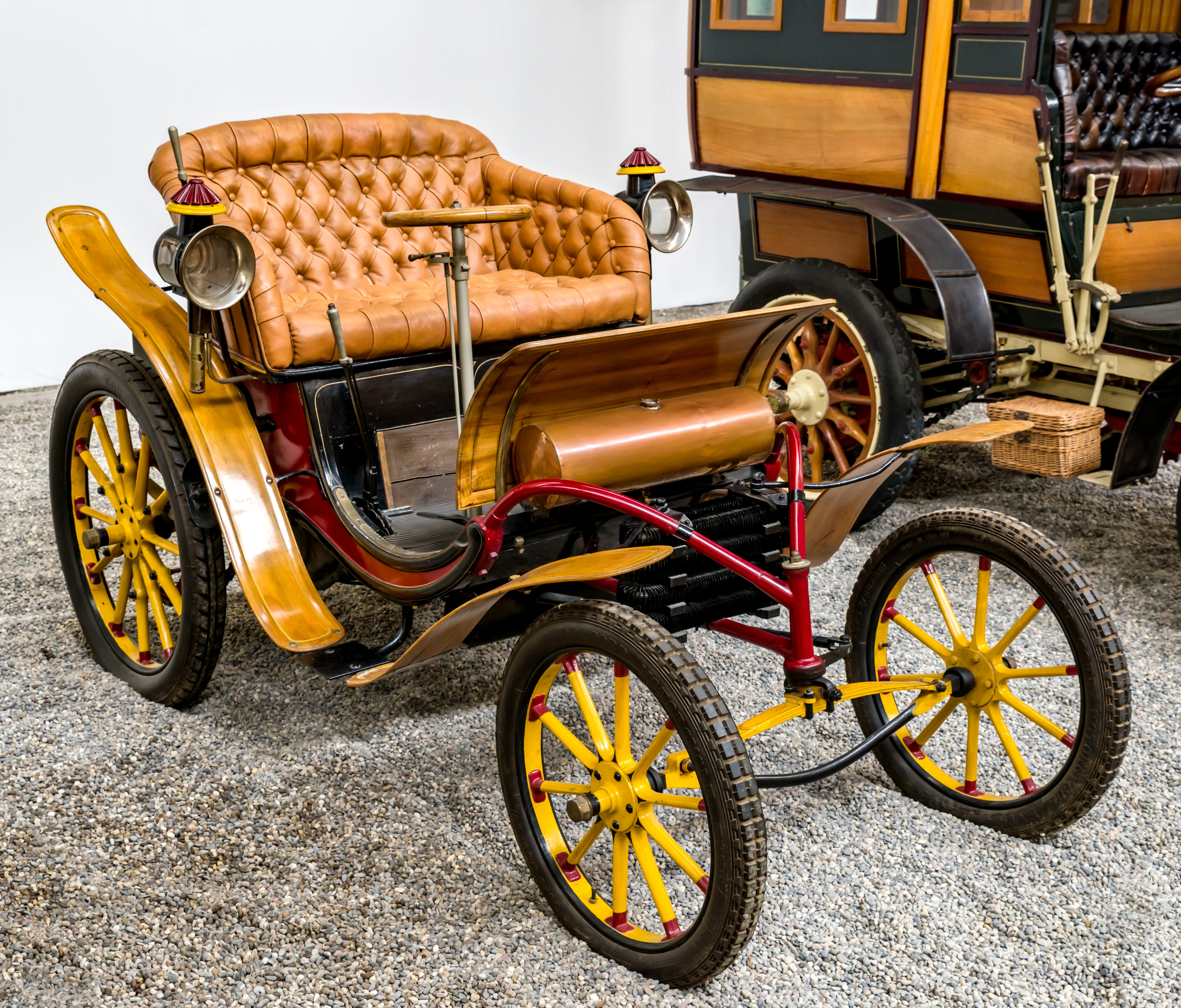 pictures from the Cité de l’Automobile – Musée National – Collection Schlump in Mulhouse, France ptictures from the 10. may 2018